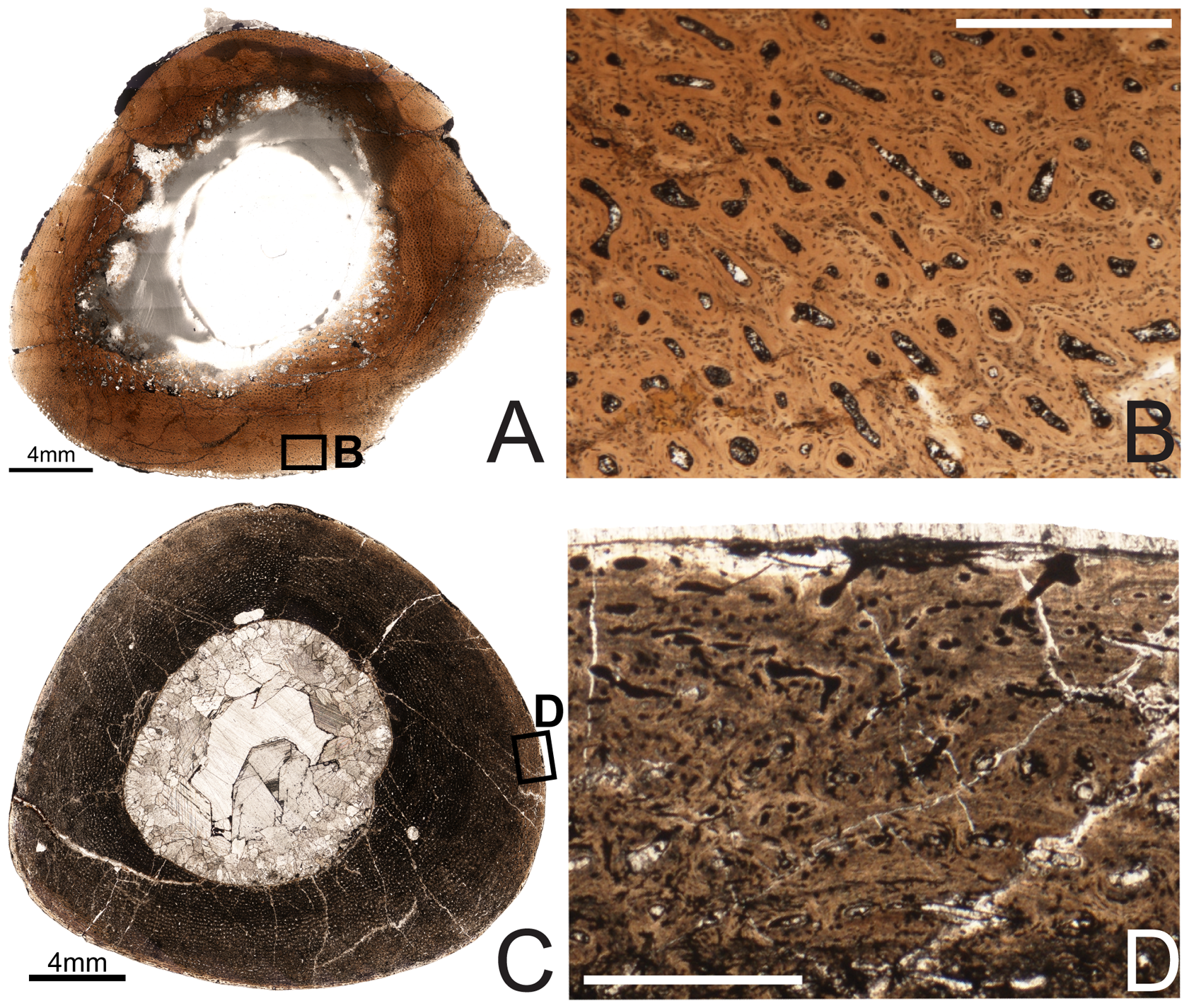 Osteohistology of the diaphyseal femur of Tenontosaurus in two juveniles. A. Cross-section of MOR 679. This section is slightly more proximal compared to others in this sample and shows part of the fourth trochanter. B. Detail of the outer cortex of A, showing primary cortical tissues. Longitudinal primary osteons in woven bone do not show many anastomoses. C. Cross-section of OMNH 34785 at the mid-diaphysis. D. Detail of the periosteal surface of C, showing longitudinal primary osteons and simple canals. Some canals open to the surface of the bone, but this is rare around the entire surface. Scale bars: A,C = 4 mm; B,D = 0.5 mm.